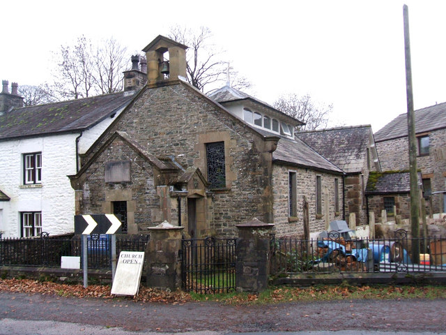 St Gregory's mission church, Vale of Lune, west of Sedbergh, Cumbria, England. The church is now redundant and maintained by the Churches Conservation Trust.